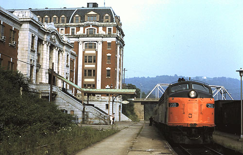 The Potomac Special at Grafton station in August 1972